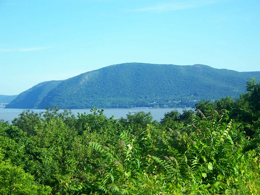 Storm King Mountain, New York, USA Taken from Overlook Terrace in the city of Newburgh.